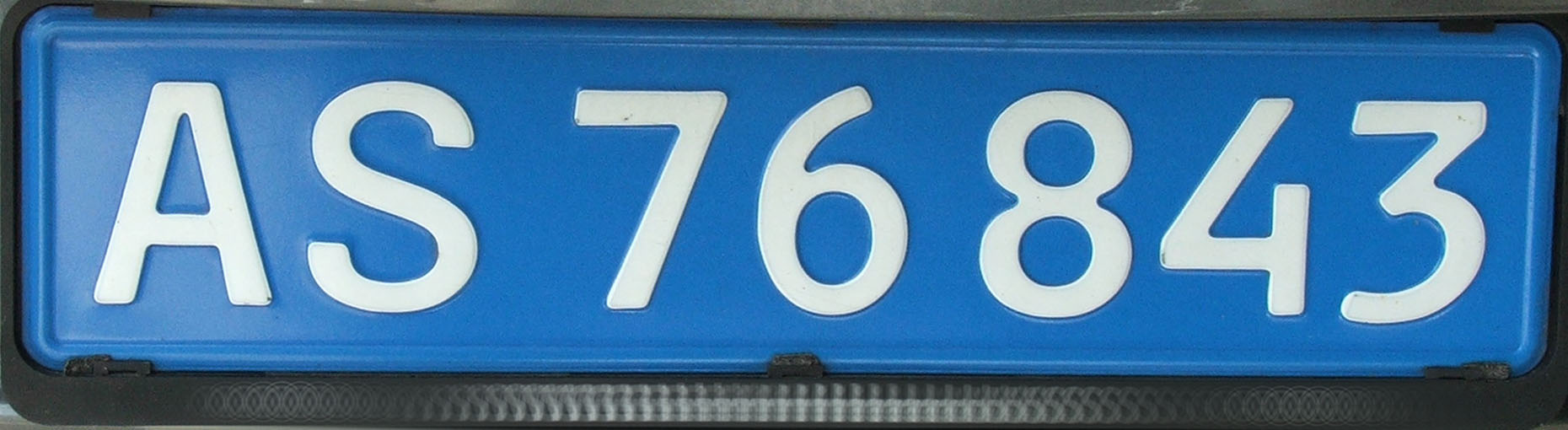 Diplomatic vehicle licence plate from Denmark as seen in 2007.